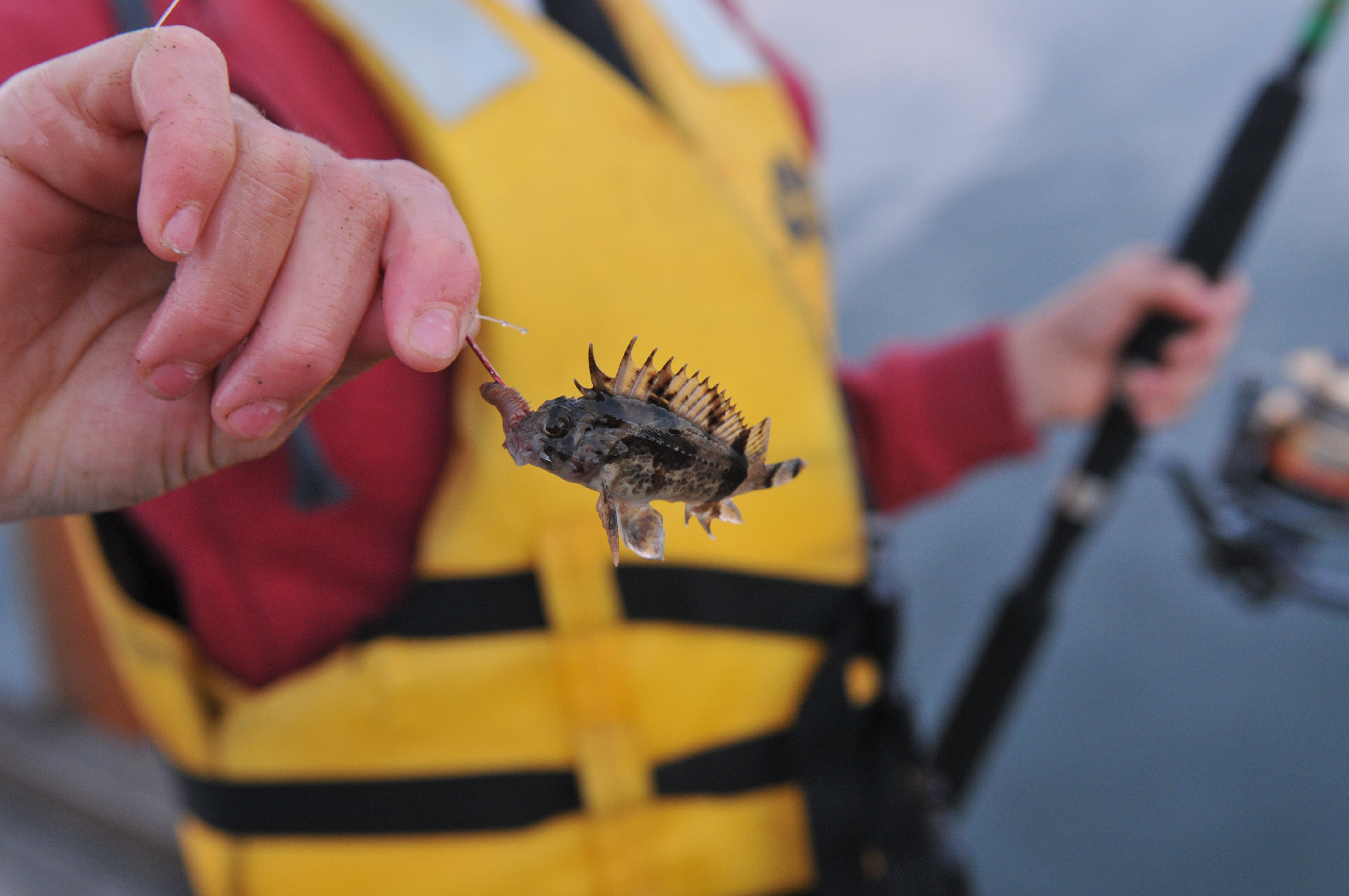 A young fisherman caught this Fortescue (Centropogon australis) at dusk on the jetty at Lakeside drive near Broome Street, Mallacoota, Victoria, Australia.